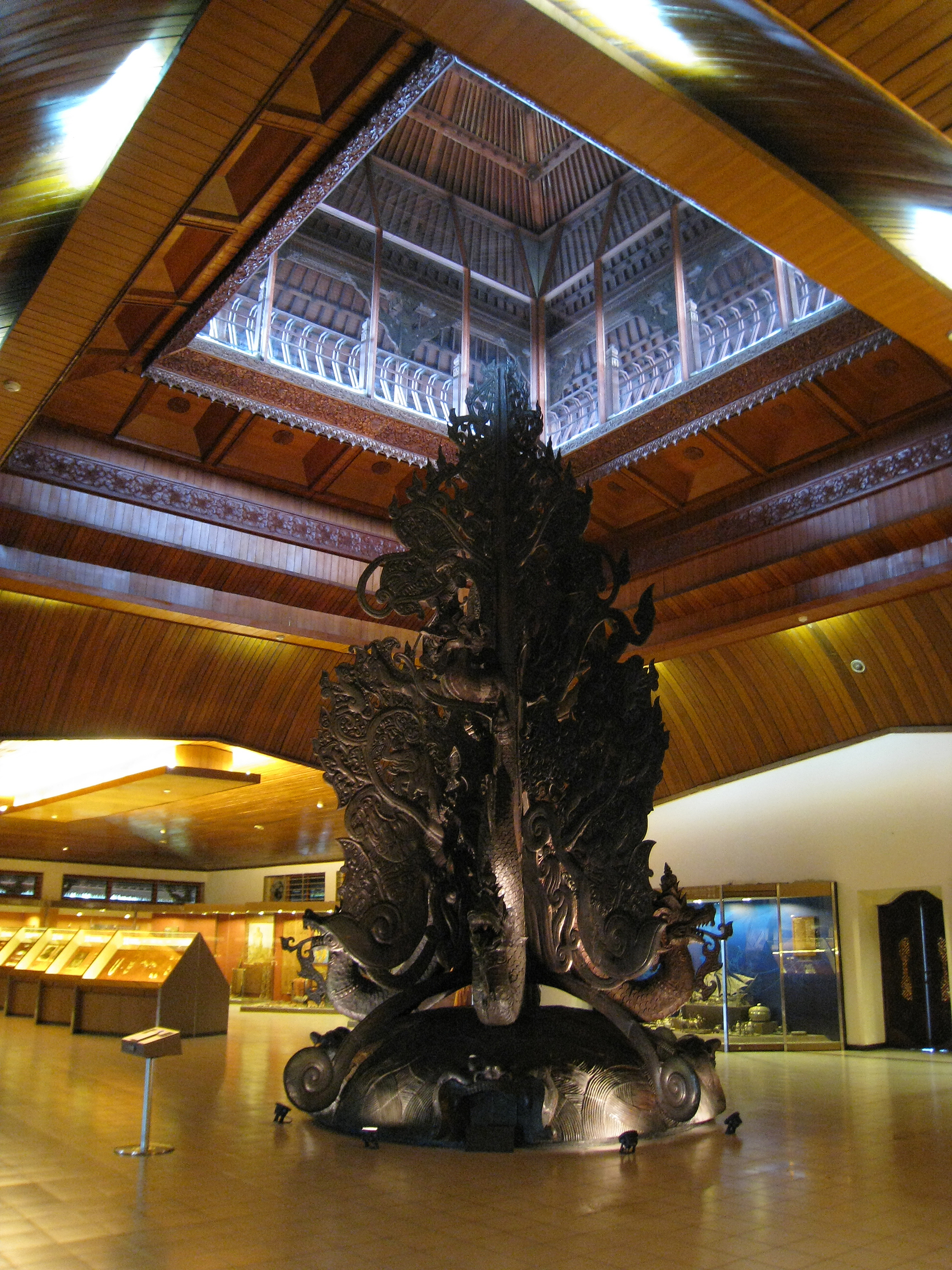 The centerpiece of third floor of Indonesia Museum is a large wooden carving of Kalpataru tree, the tree of life. This eight meters high and four meters wide tree symbolize the nature and universe and contains five basic elements; air, water, wind, earth, and fire.